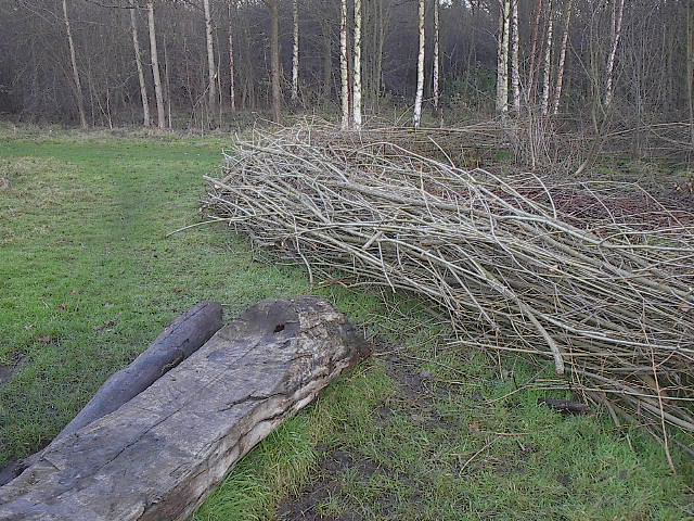 Log bench inscribed with 'Joy's Wood' next to birch grove and a ringfence of laid branches at Moseley Bog.